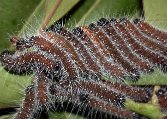 Delias eucharis caterpillars